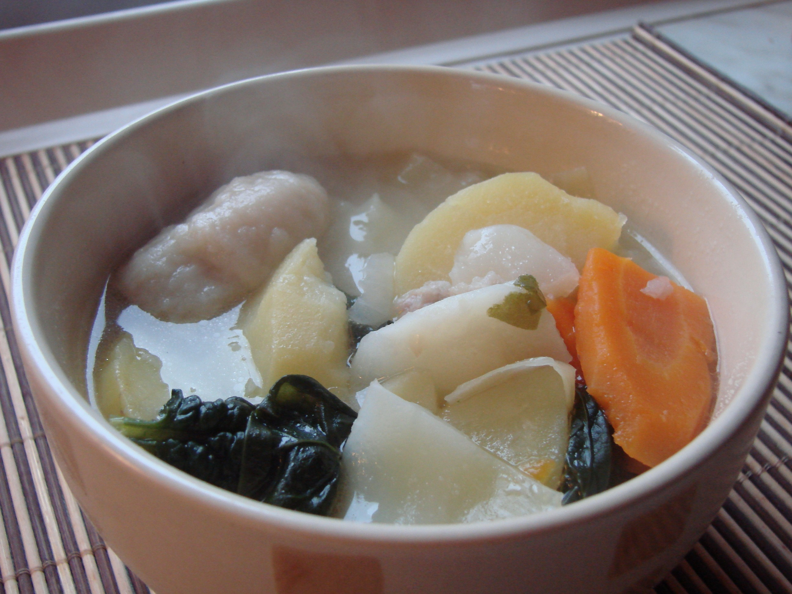 Maori boil-up, a soup made from potatoes, pork bones, dumplings, cabbage and variety of another greens. Pumpkin and sweet potatoes are also added traditionally.